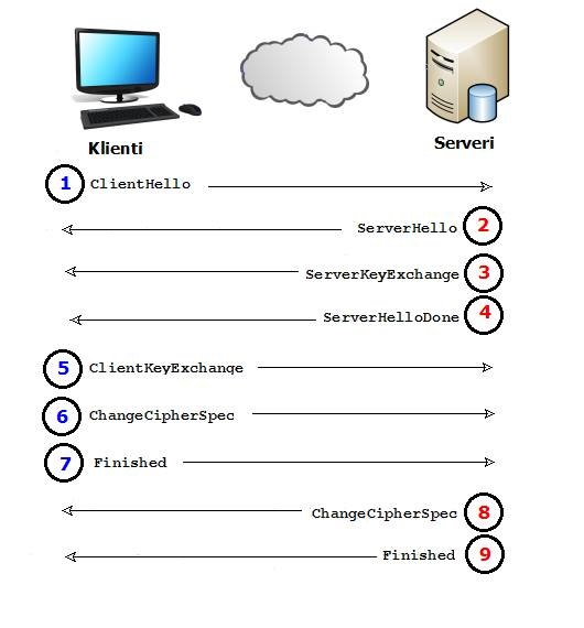 ssl operacioni